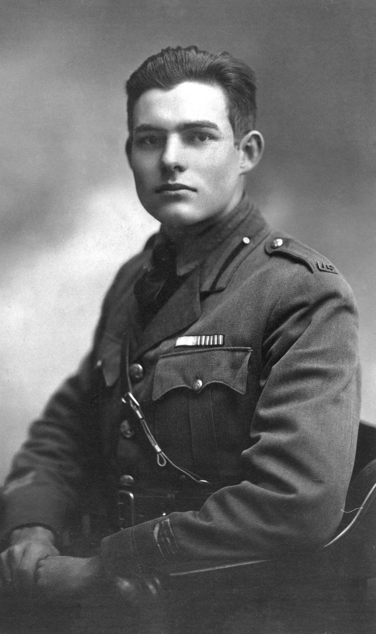 Ernest Hemingway in Milan, 1918